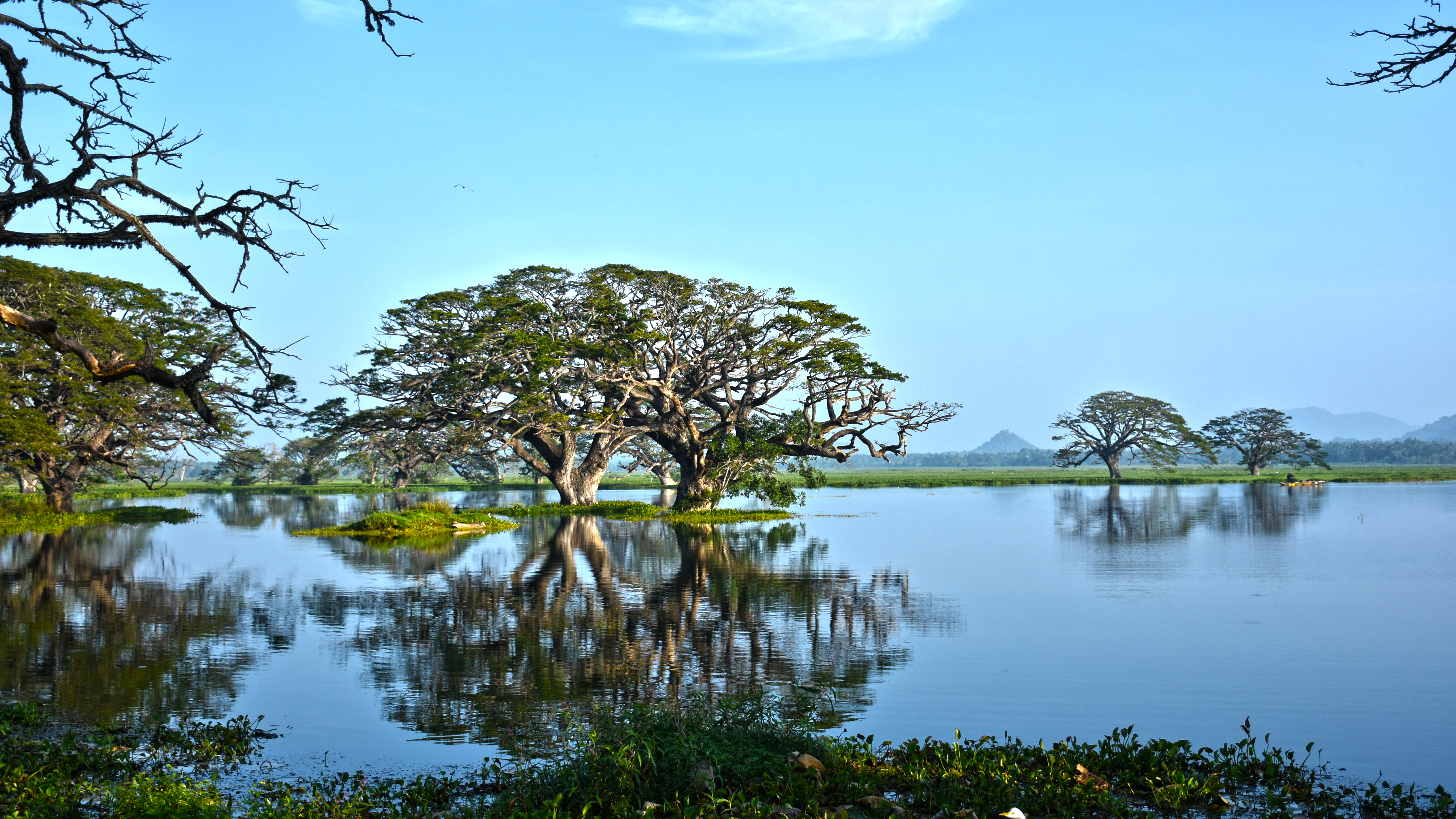 Landscape shot of Thissa Lake in Wet Season